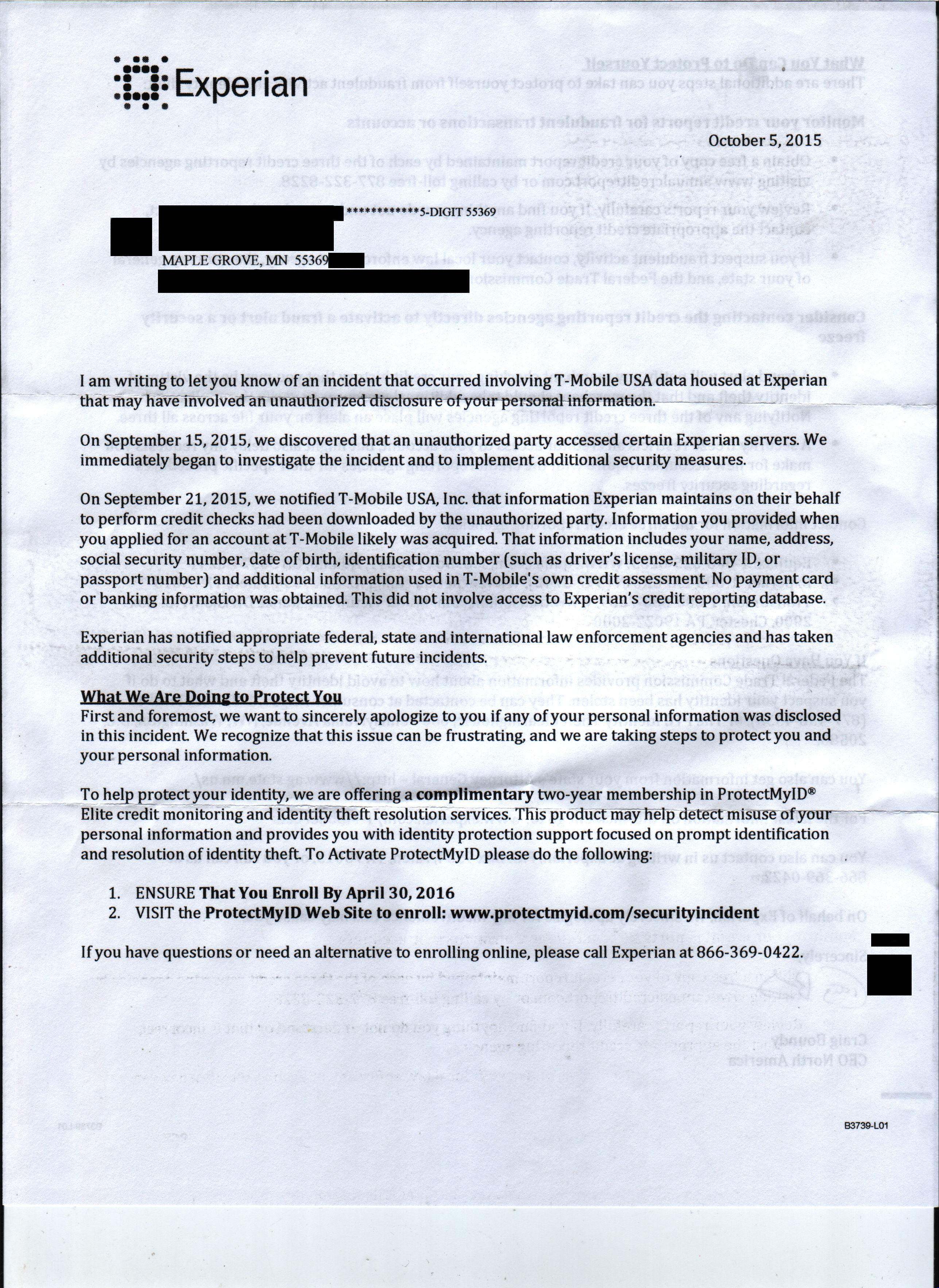 Letter received by T-Mobile customer informing them that Experian servers were hacked and that their personal information was accessed.